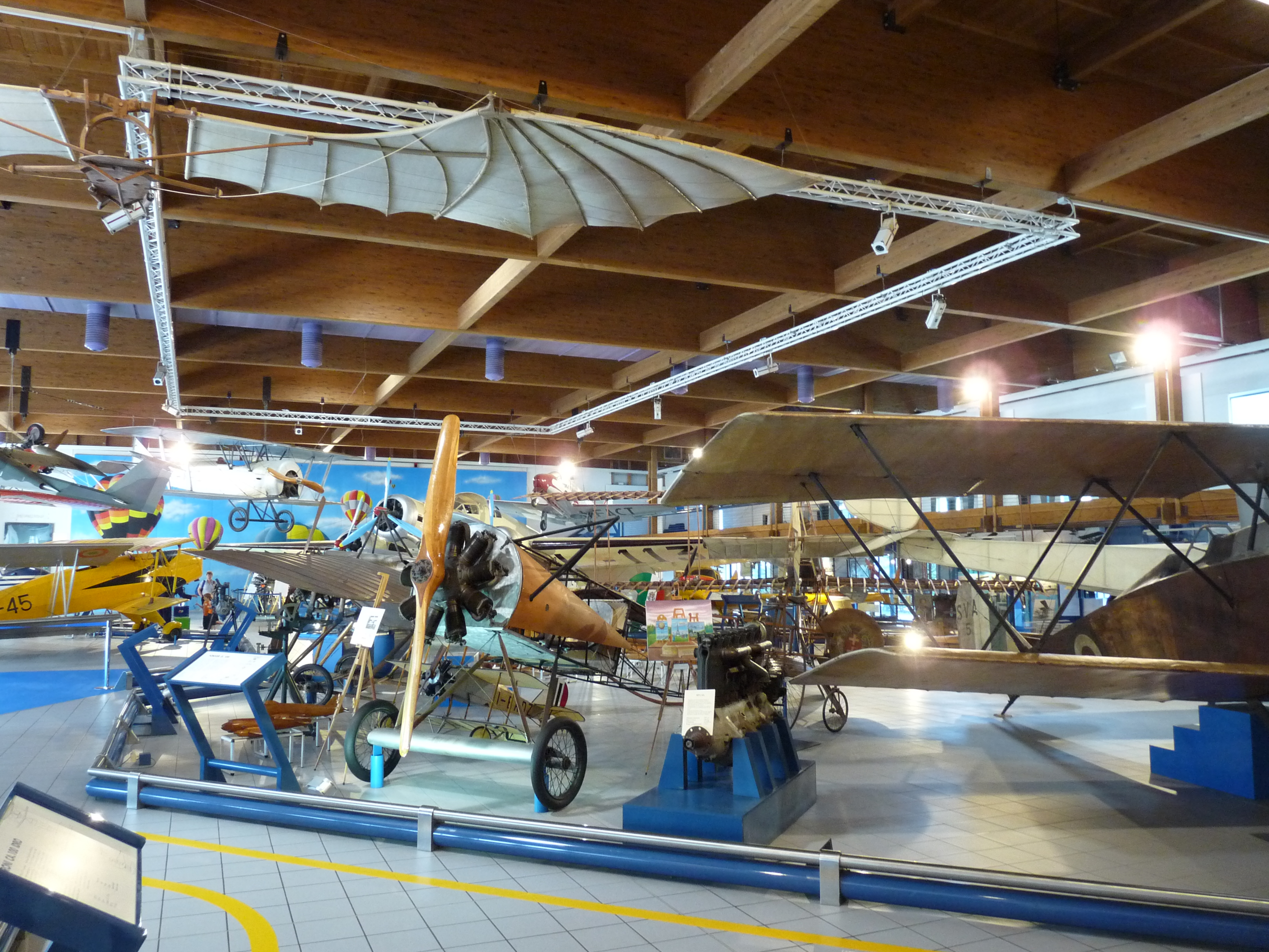 Trento (Italy): main hangar of the Museum of Aeronautics Gianni Caproni.